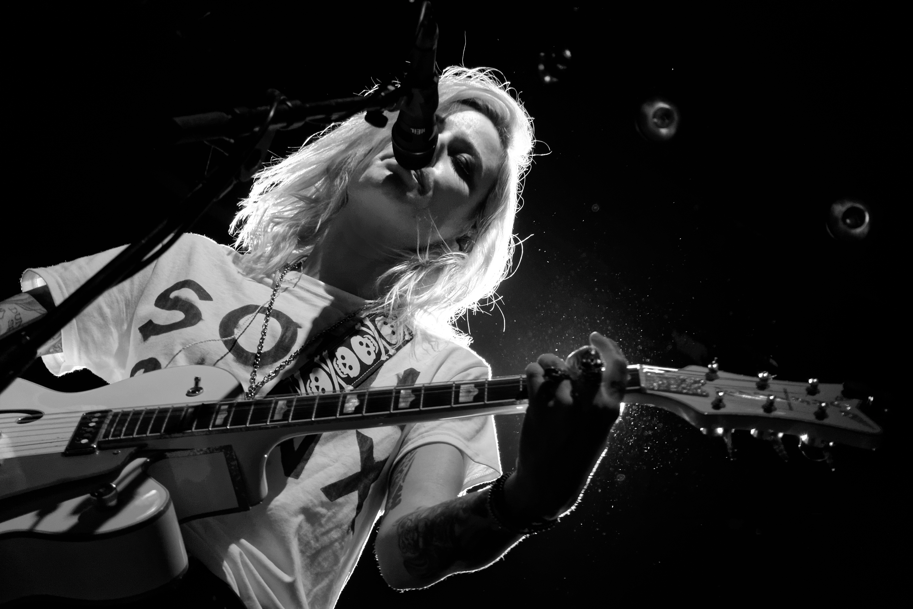 Gin Wigmore (with openers Matthew Santos and Gentlemen) performing live at the El Rey Theatre in Los Angeles California on Thursday May 5th, 2016. This was the final show on Gin's "Willing to Die" Tour.